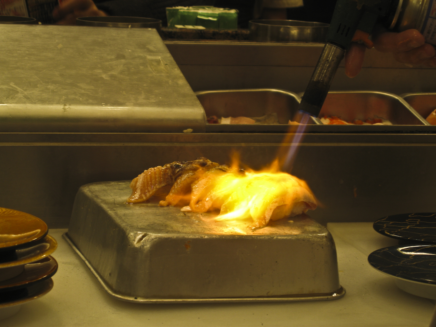 searing eel sushi. Source: I took this myself